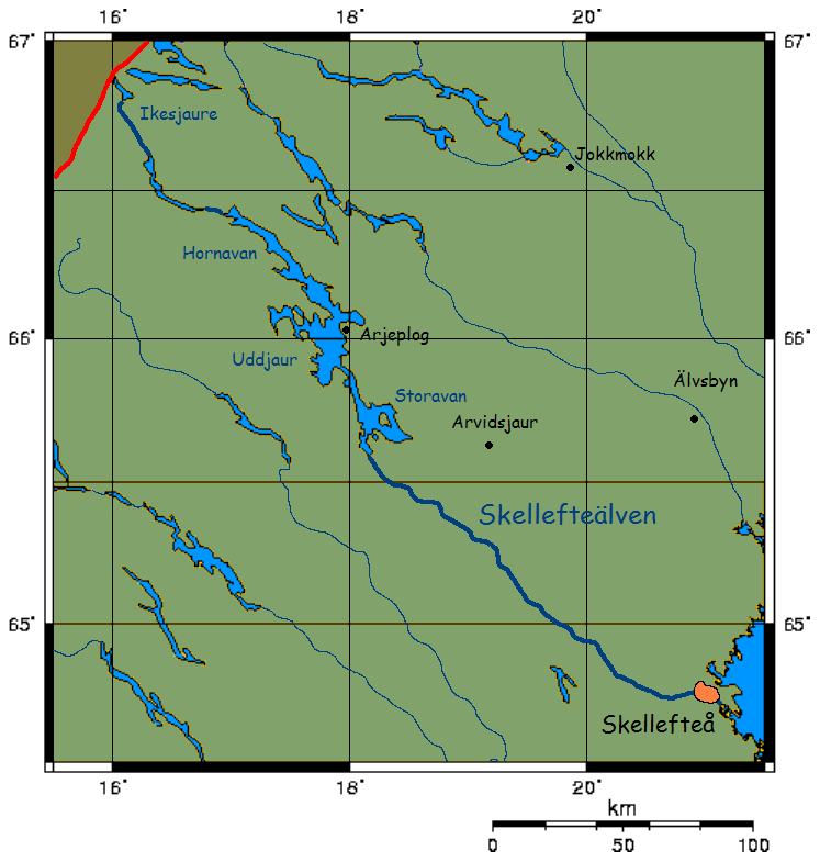 Map of the river Skellefteälven, Sweden (in the upper left corner is Norway)